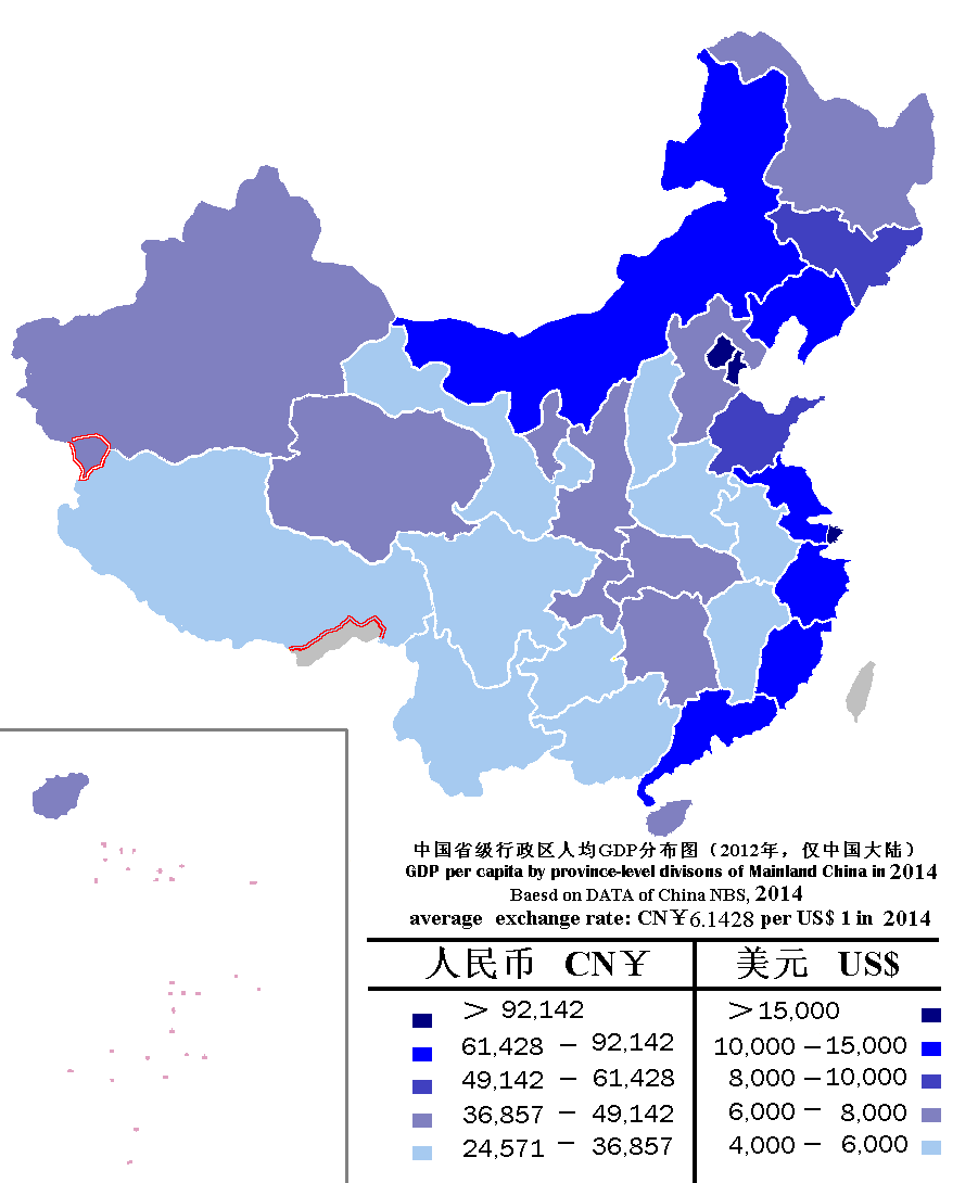 中国省份人均GDP分布 Chinese province-level divisions by GDP per capita